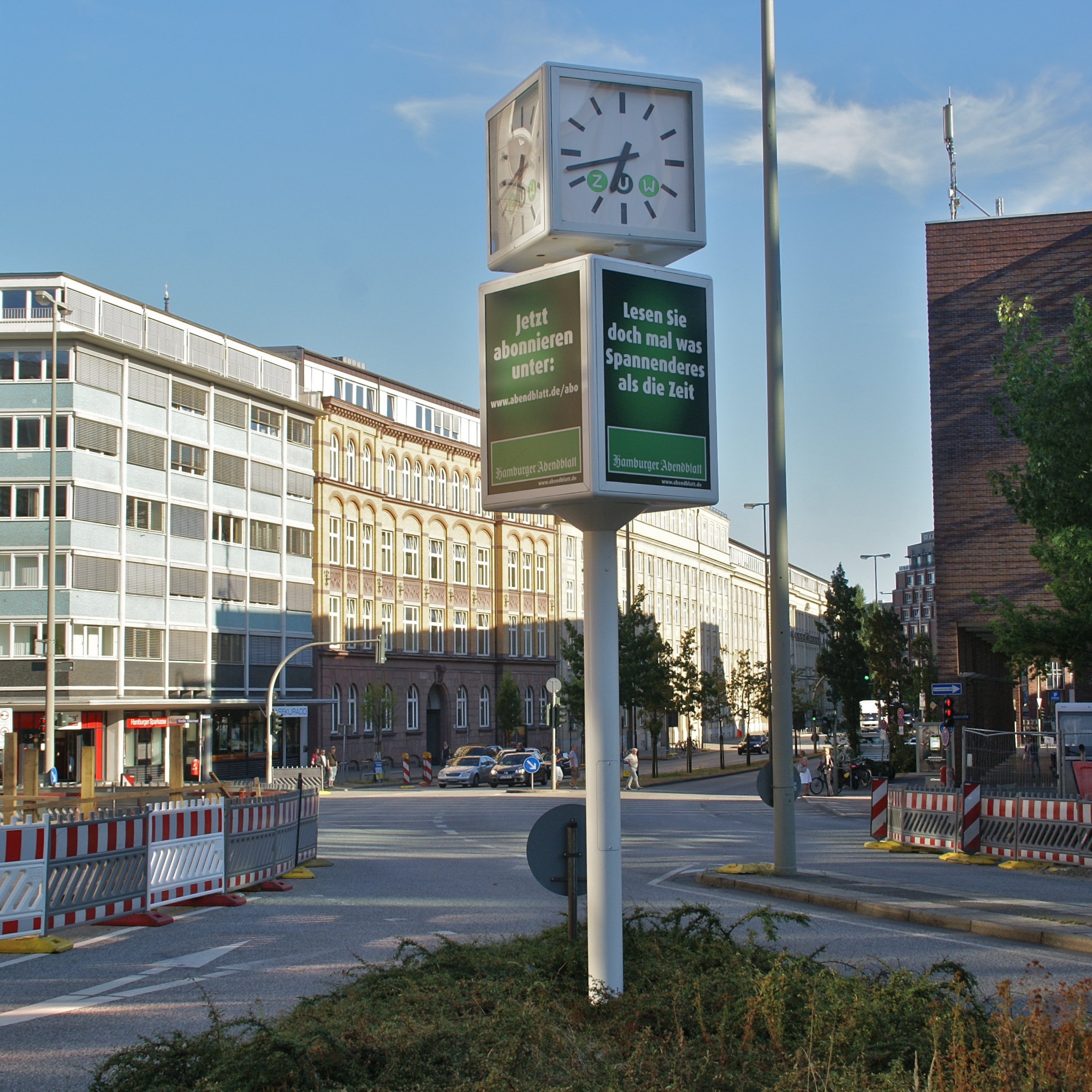 Hamburg (Germany): Public clock with advertisement for the newspapager Hamburger Abendblatt. View from Axel Springer-Platz towards Stadthausbrücke (Neustadt)